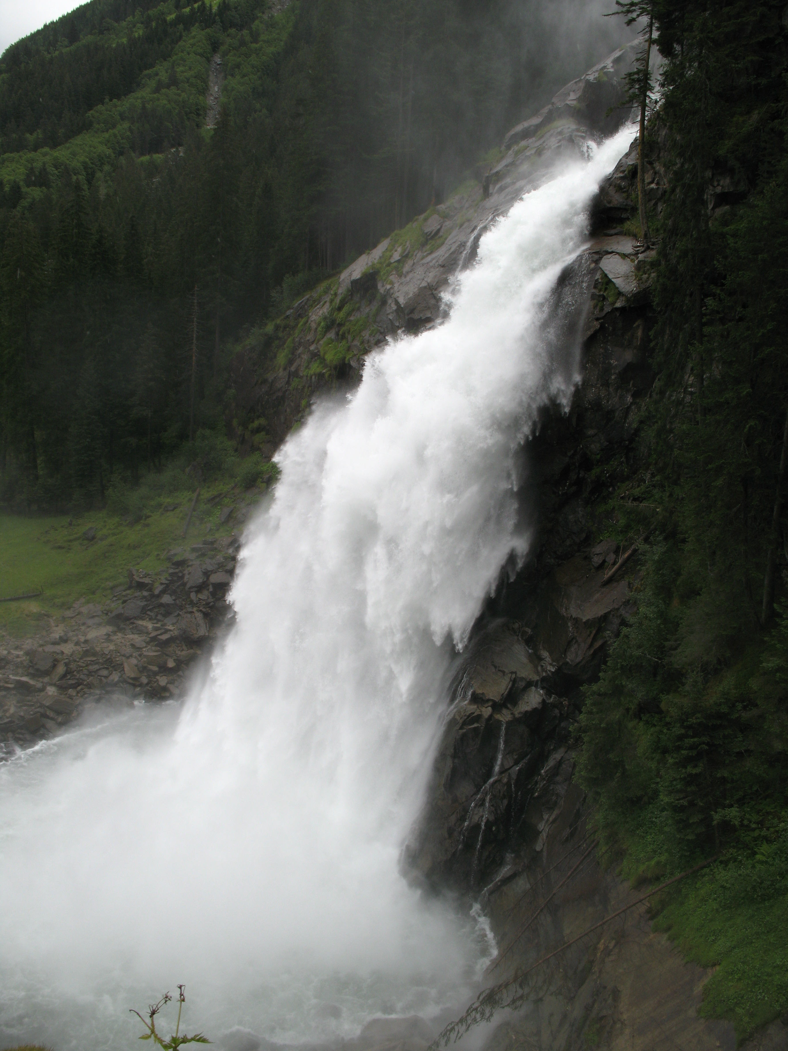 Krimml Waterfall, Hohe Tauern National Park, Austria